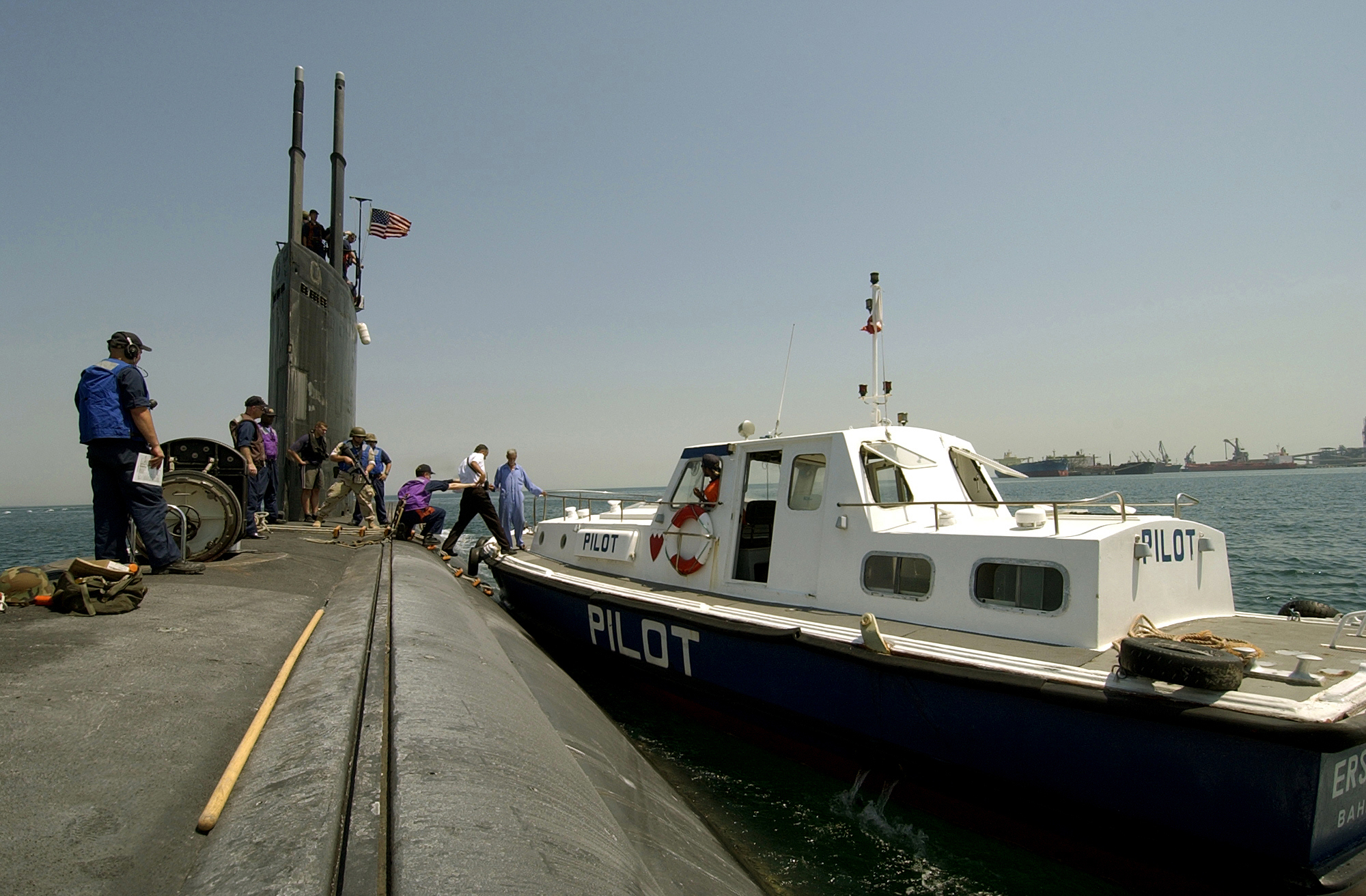 Arabian Gulf (Aug. 31, 2004) - A Bahraini harbor pilot is escorted onto his boat after assisting the crew of the Los Angeles-class attack submarine USS Toledo (SSN 769) through the shallow waters of Mina Sulman port after a 10-day port visit to the Kingdom of Bahrain. Harbor pilots are used by U.S. Naval vessels to aid in navigating in and out of unfamiliar bodies of water. The crew used the port visit as a working port to perform a mid-deployment upkeep. Toledo is part of USS John F. Kennedy (CV 67) Carrier Strike Group (CSG) and is on a deployment in support of the sovereign Iraqi government. U.S. Navy photo by Photographer's Mate 1st Class David C. Lloyd (RELEASED)